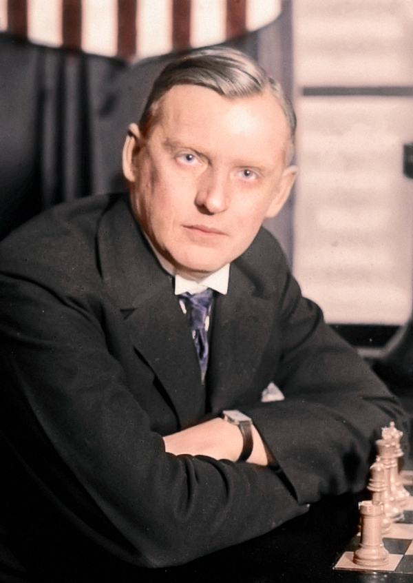 Russian-born French chess champion Alexander Alekhine (1892-1946)